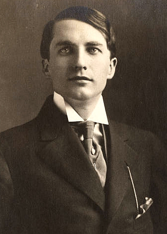 1912 portrait of American actor Guy Coombs (1882-1947).